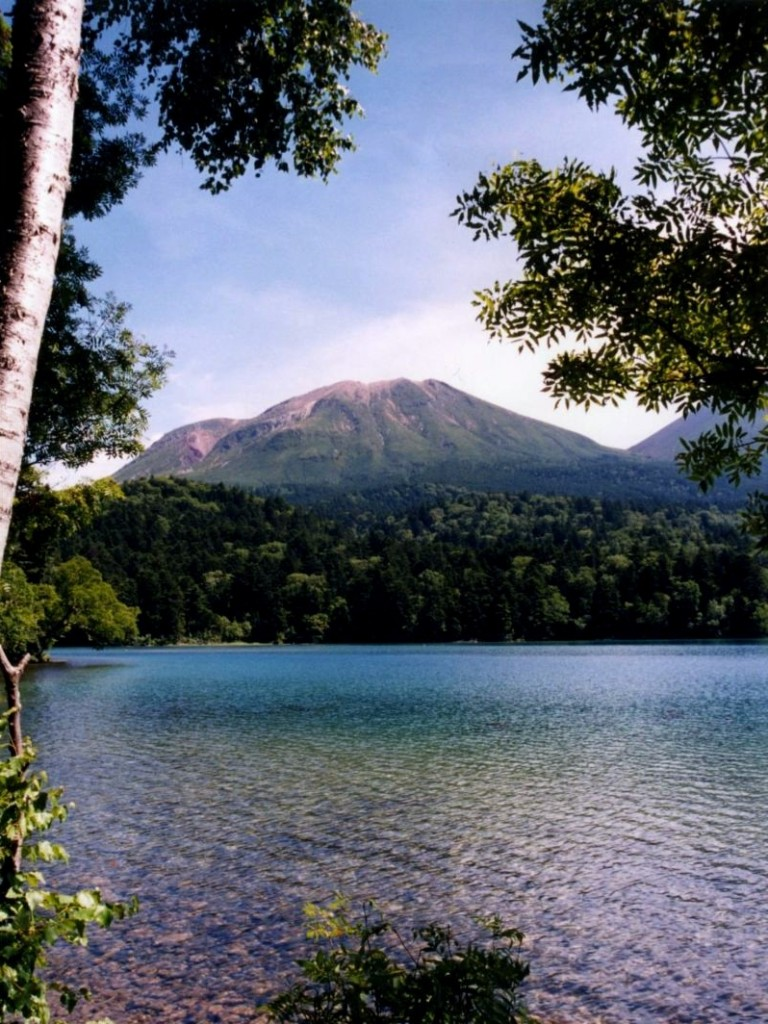 The lake of Onnneto and Mt.Meakan in Ashoro town, Hokkaido, Japan.北海道足寄町にあるオンネトーという湖と雌阿寒岳。